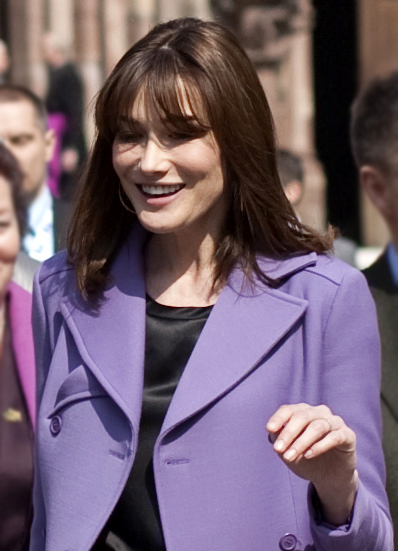 Carla Bruni-Sarkozy at the NATO summit meeting after a tour at Notre Dame Cathedral in Strasbourg, France.